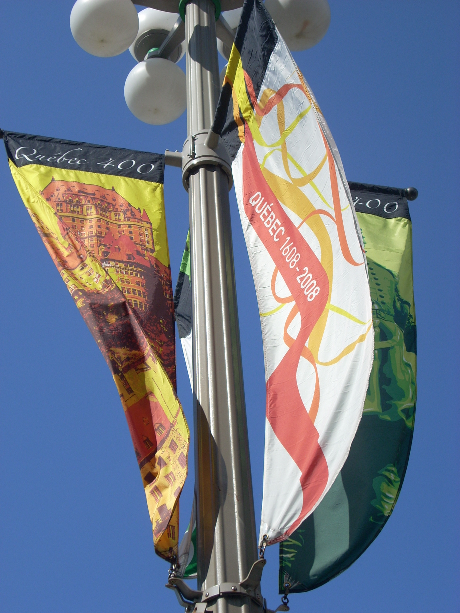 Banners for the 400th anniversary of Quebec City, 2008.